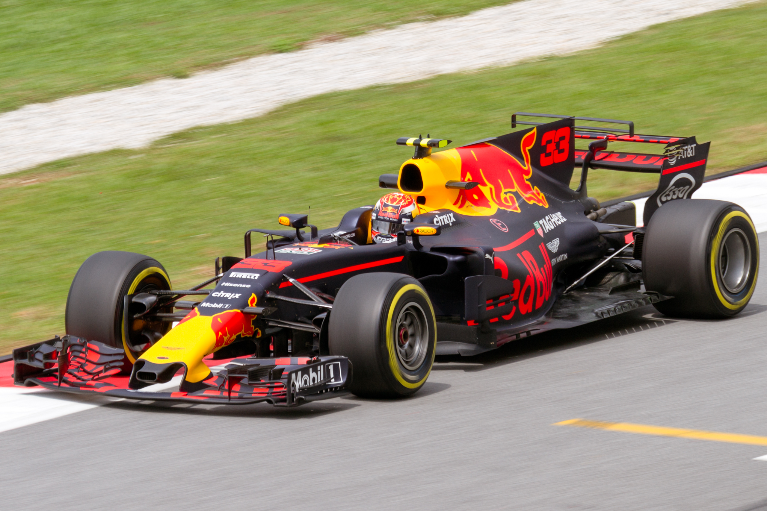 Formula One 2017 Rd.15 Malaysian GP: Max Verstappen (Red Bull)